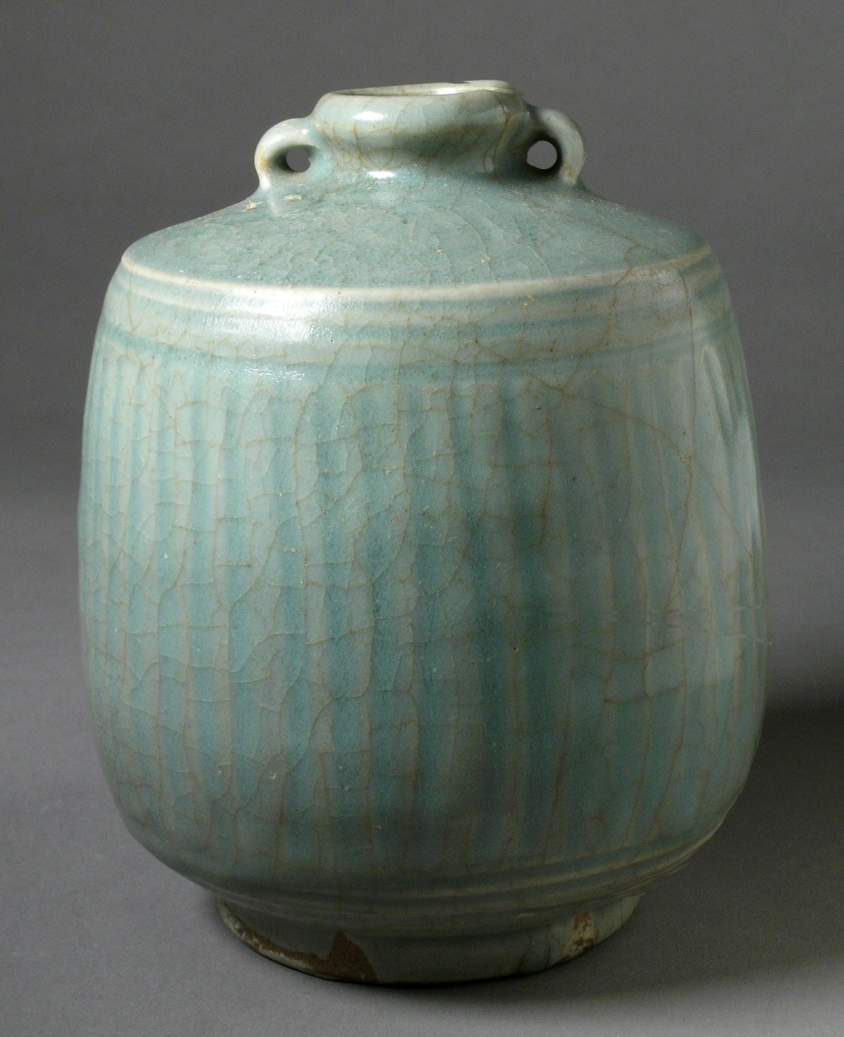 Thailand, Sawankhalok, 15th century Furnishings; Accessories Wheel-thrown stoneware with carved and incised decoration and celadon glaze Gift of Ambassador and Mrs. Edward E. Masters (M.84.213.59) South and Southeast Asian Art